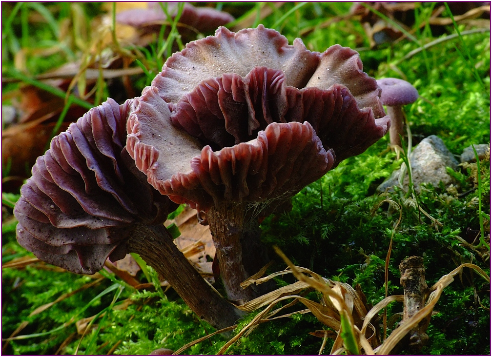 Violetter Lacktrichterling (Laccaria amethystea)